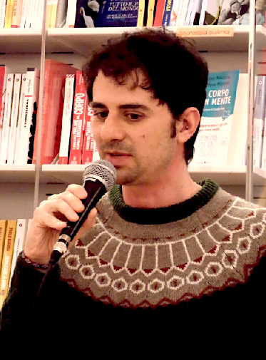 Giuseppe Catozzella